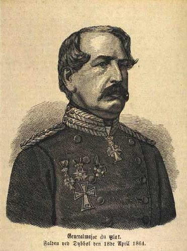 Peter Henrik Glode (Claude) du Plat (1809-1864), Danish major general